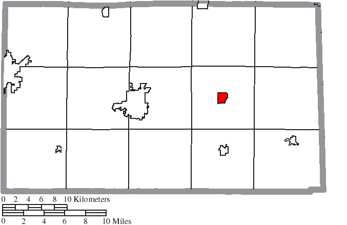 Map of the municipal and township boundaries of Seneca County, Ohio, United States, as of the 2000 census, with the location of the village of Republic highlighted. Township borders are shown only in unincorporated areas in order to differentiate incorporated and unincorporated areas more clearly.